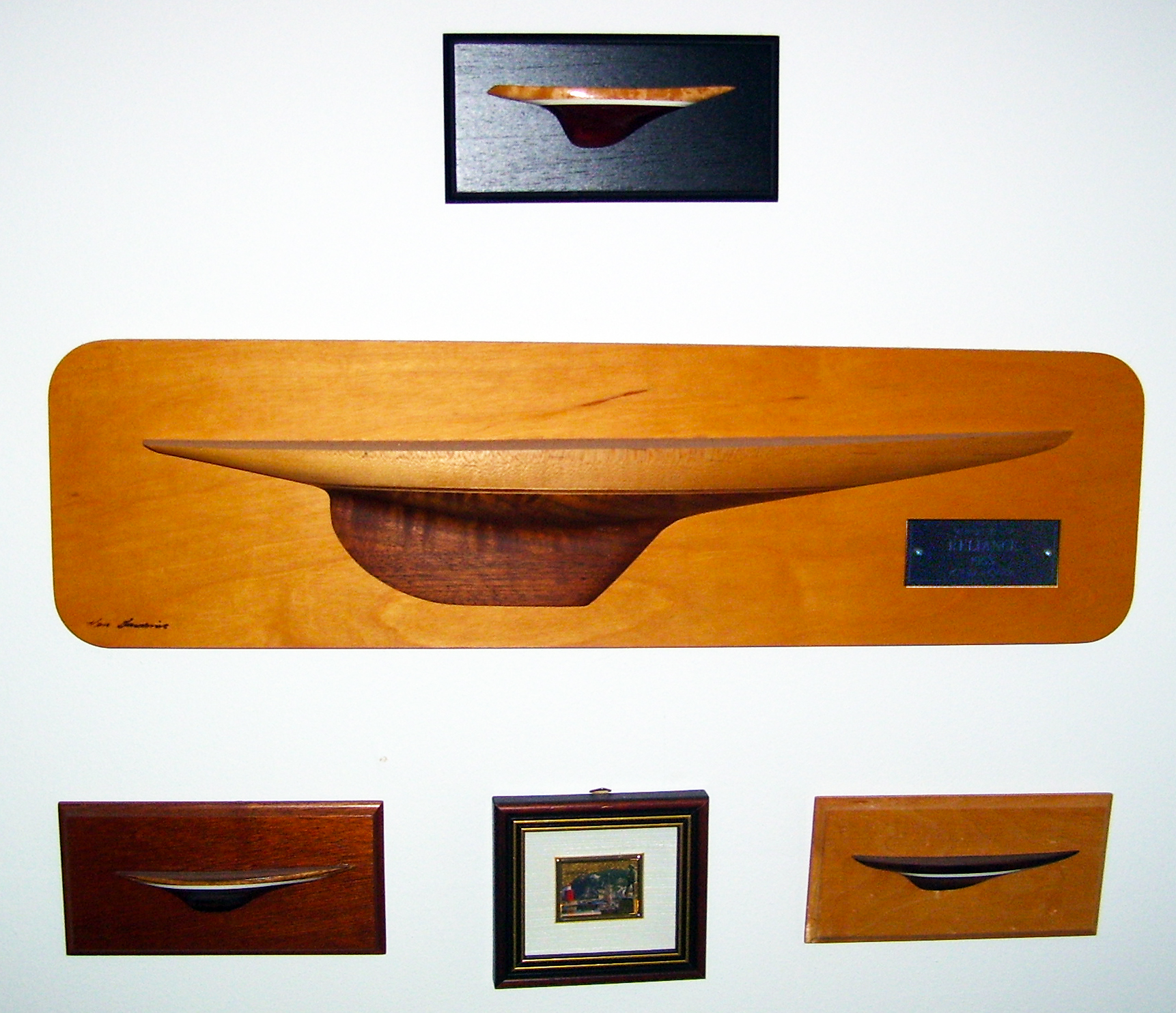 This is my 2009 photo of several of my half hull model ships.